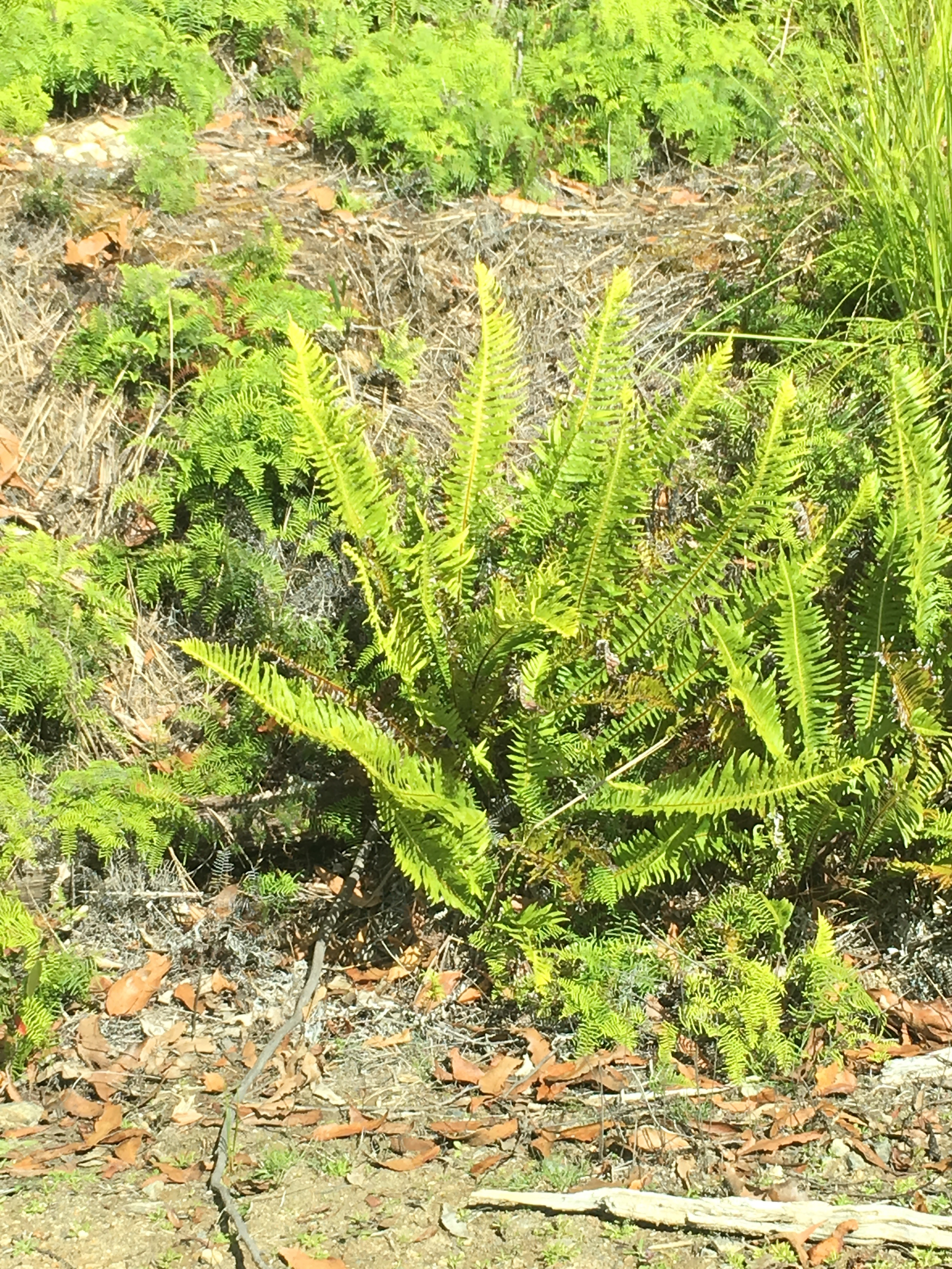 This is a photo of the Fishbone Waterfern, Blechnum nudum, growing in Tasmania, Australia